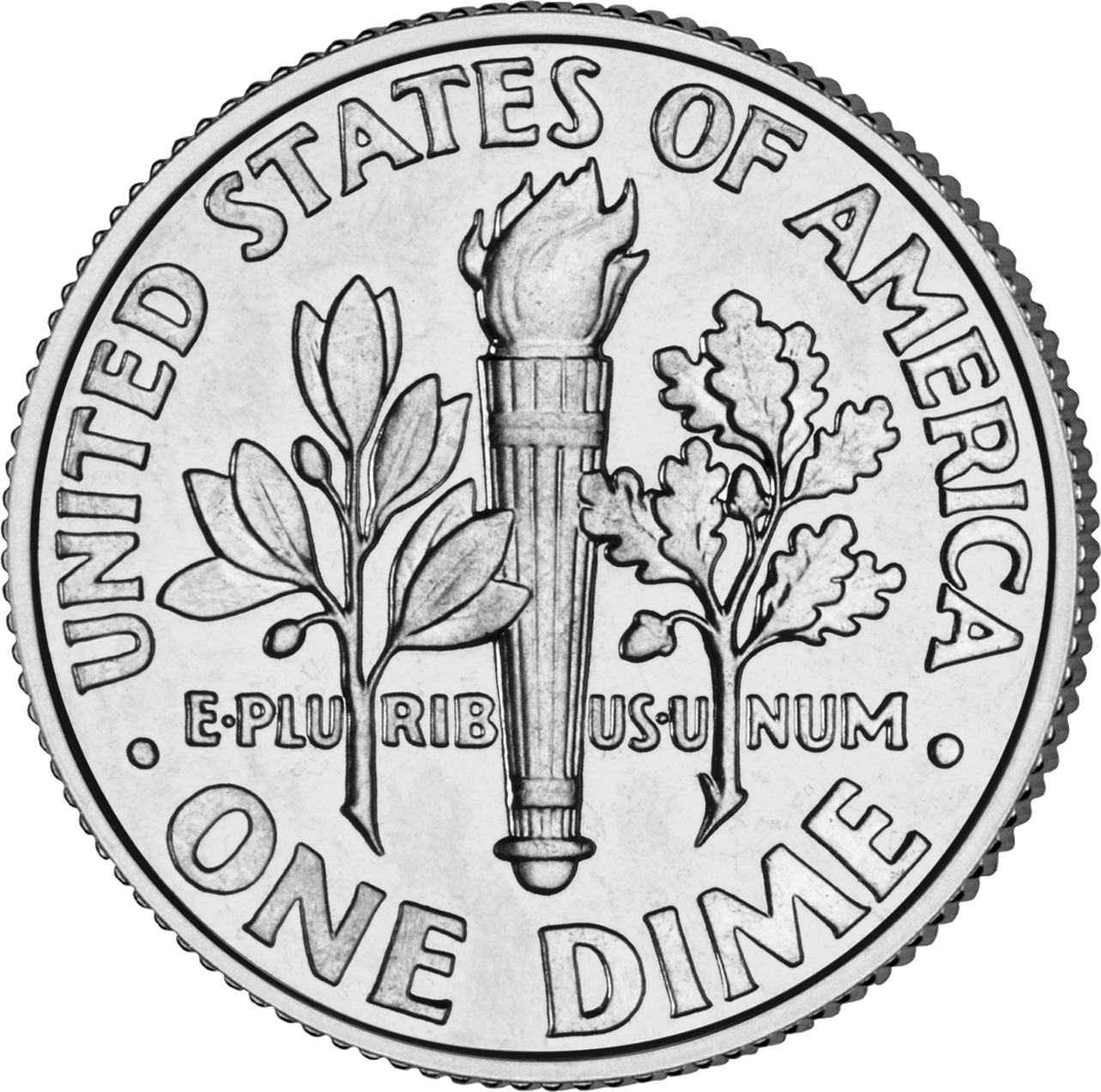 Removed background, cropped, and converted to PNG with Macromedia Fireworks. This image depicts a unit of currency issued by the United States of America. If Fraudulent use of this image is punishable under applicable counterfeiting laws. As listed by the United States Secret Service at money illustrations, the Counterfeit Detection Act of 1992, Public Law 102-550, in Section 411 of Title 31 of the Code of Federal Regulations (31 CFR 411), permits color illustrations of U.S. currency provided:1. The illustration is of a size less than three-fourths or more than one and one-half, in linear dimension, of each part of the item illustrated;2. The illustration is one-sided; and3. All negatives, plates, positives, digitized storage medium, graphic files, magnetic medium, optical storage devices, and any other thing used in the making of the illustration that contain an image of the illustration or any part thereof are destroyed and/or deleted or erased after their final use. Certain coins contain copyrights licensed to the U.S. Mint and owned by third parties or assigned to and owned by the U.S. Mint [1]. For the United States Mint circulating coin design use policy, see [2]; for the policy on the 50 State Quarters, see [3]. Also: COM:ART #Photograph of an old coin found on the Internet